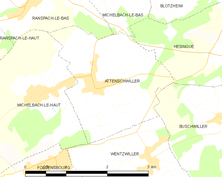 Map of French municipality